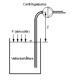 Hydraulic suction "head" (pressure i meter) definition for hydraulic pumps working with atmospheric inlet condtions.